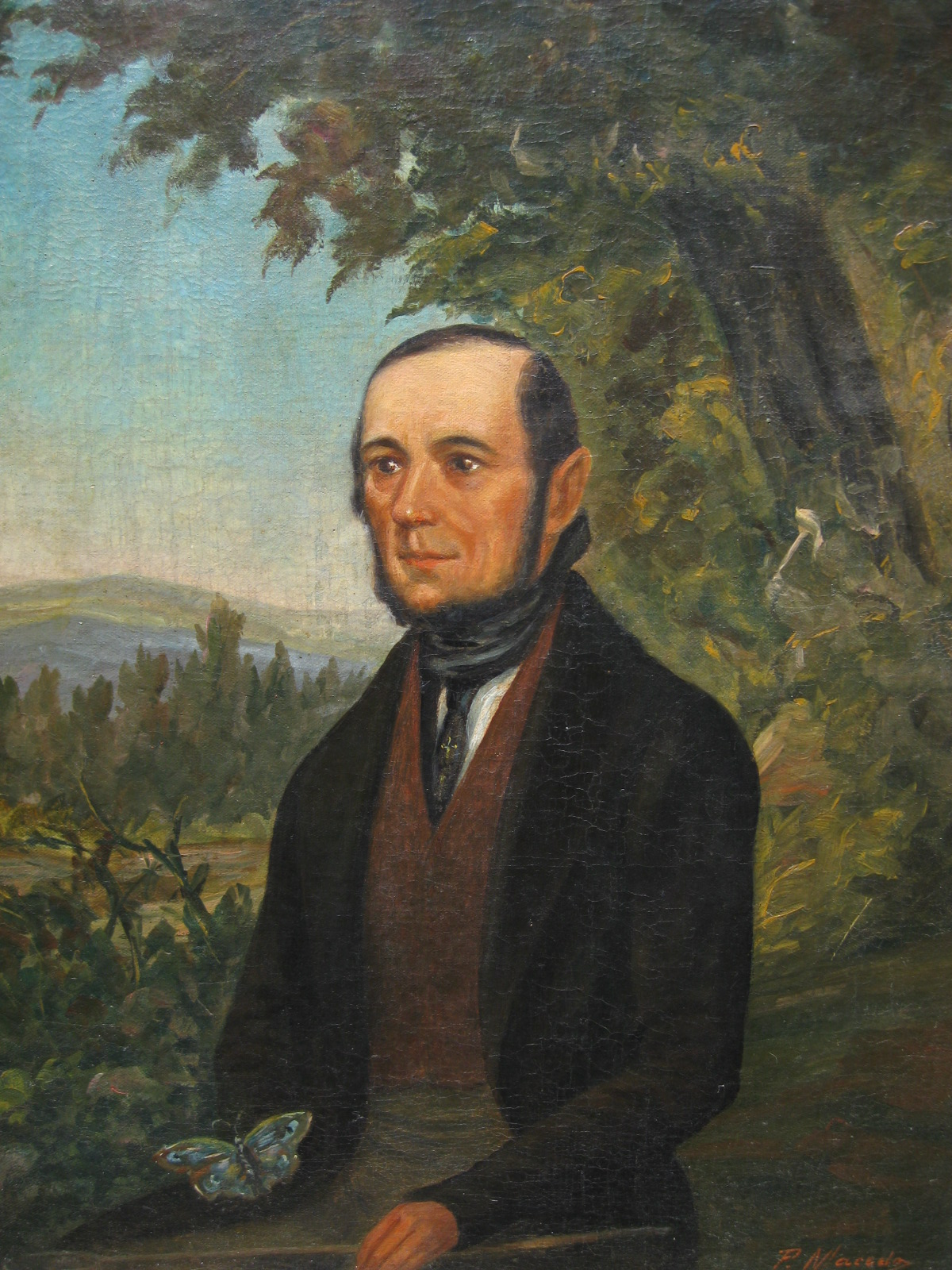 Franz Gustav Straube by brazilian painter Pedro Macedo.